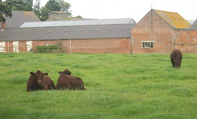 Lincoln Red cattle at Ranby Grange. The Lincoln Red is not a common breed of cattle. A 1997 survey found 750 breeding females in the UK.